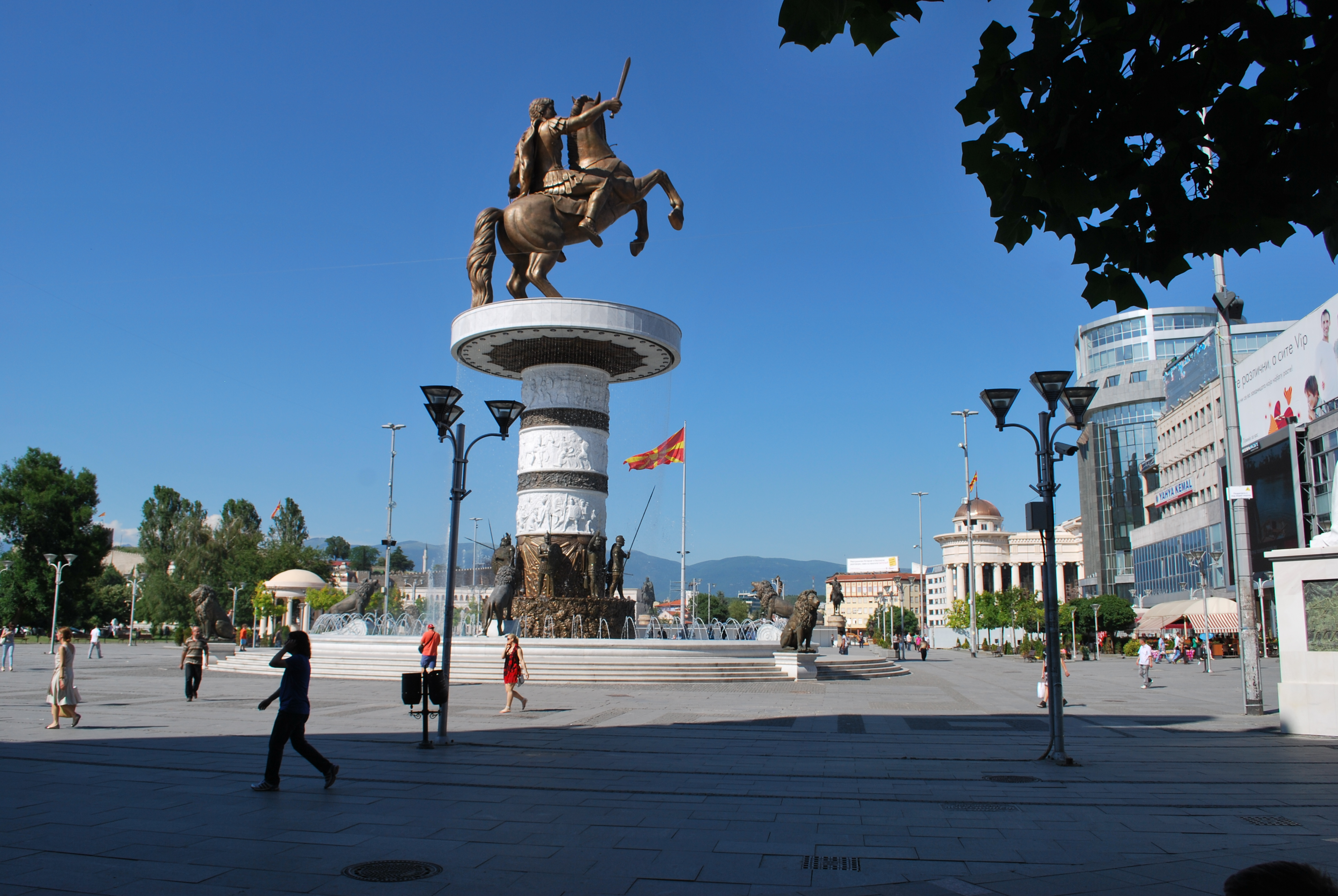 Warrior on Horseback in Macedonia Square in Skopje, Macedonia